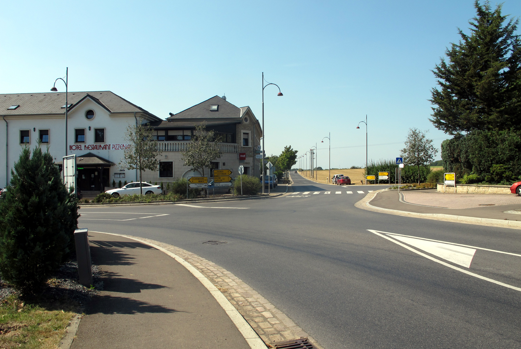 Kräizwee in Olm Luxembourg